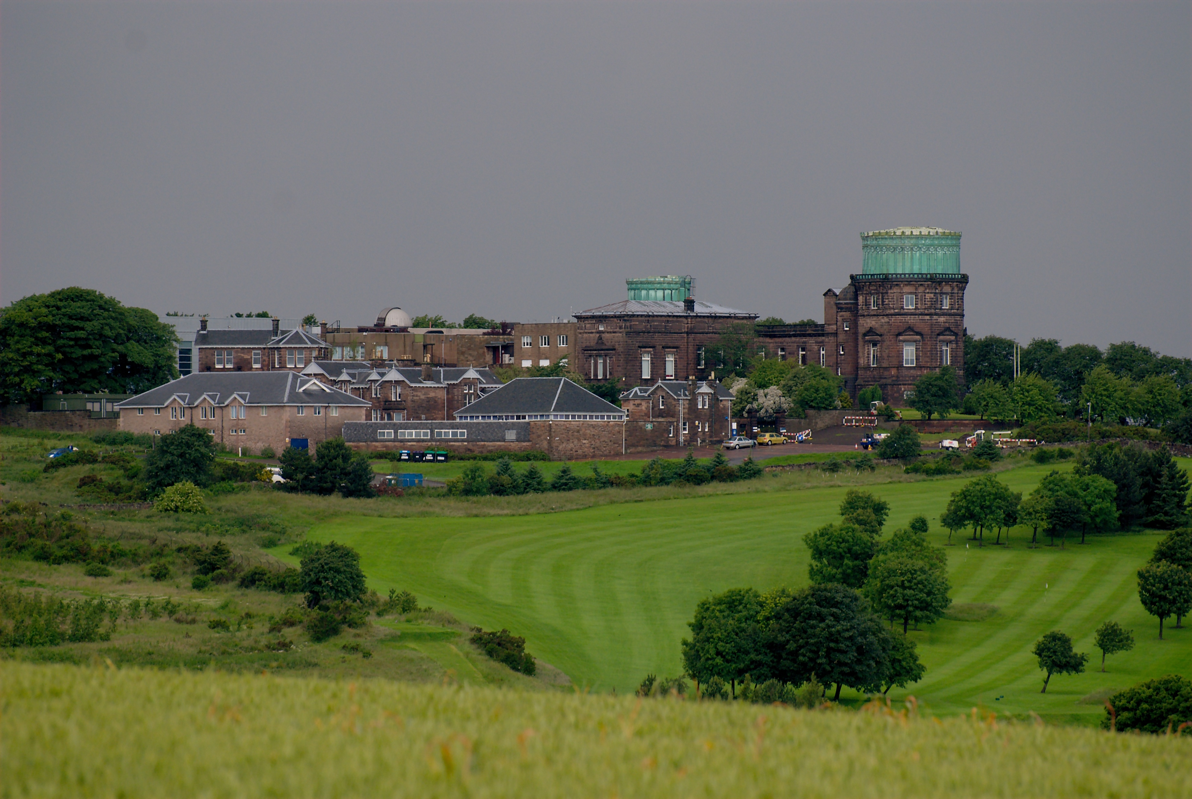 Royal Observatory, Edinburgh